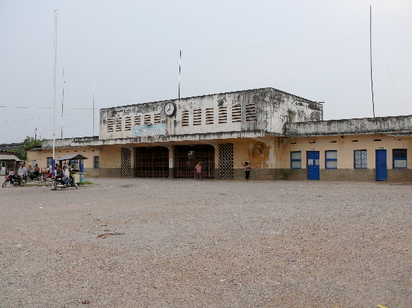 Train station in Battambang in Cambodia in March 2009.